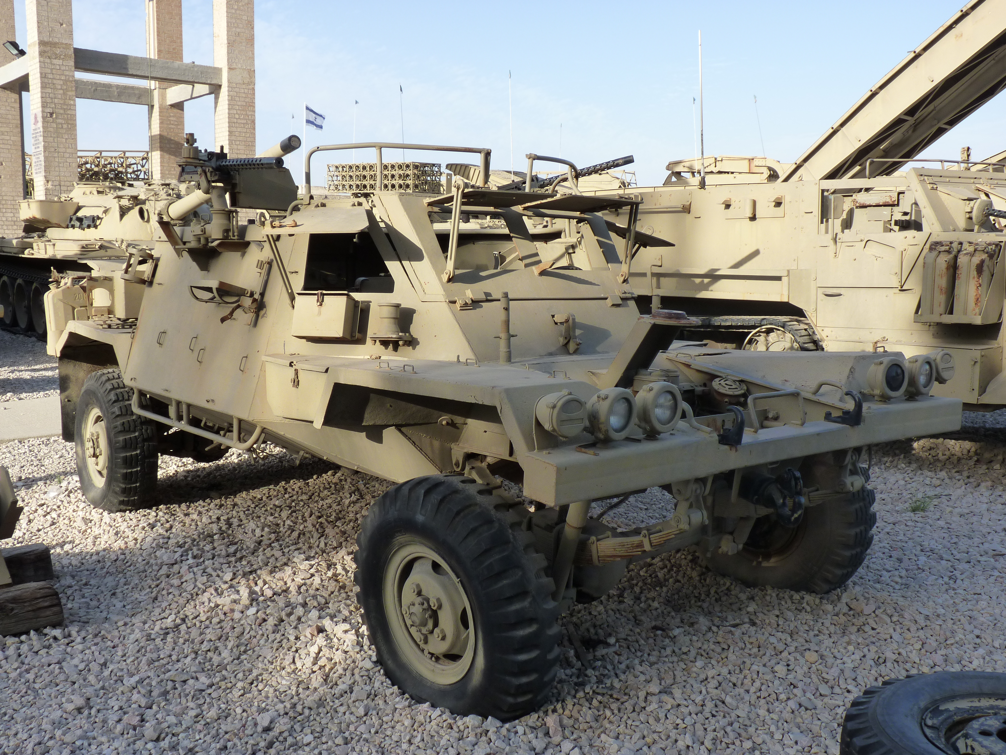 P1100566 Latrun - Armored Corps Museum